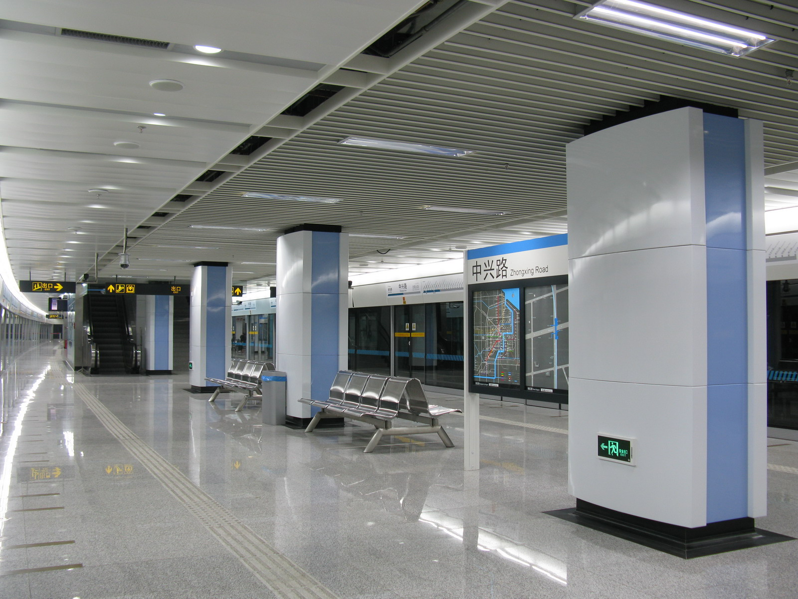 中兴路站 8号线月台 Line 8 Platform of Zhongxing Road Station